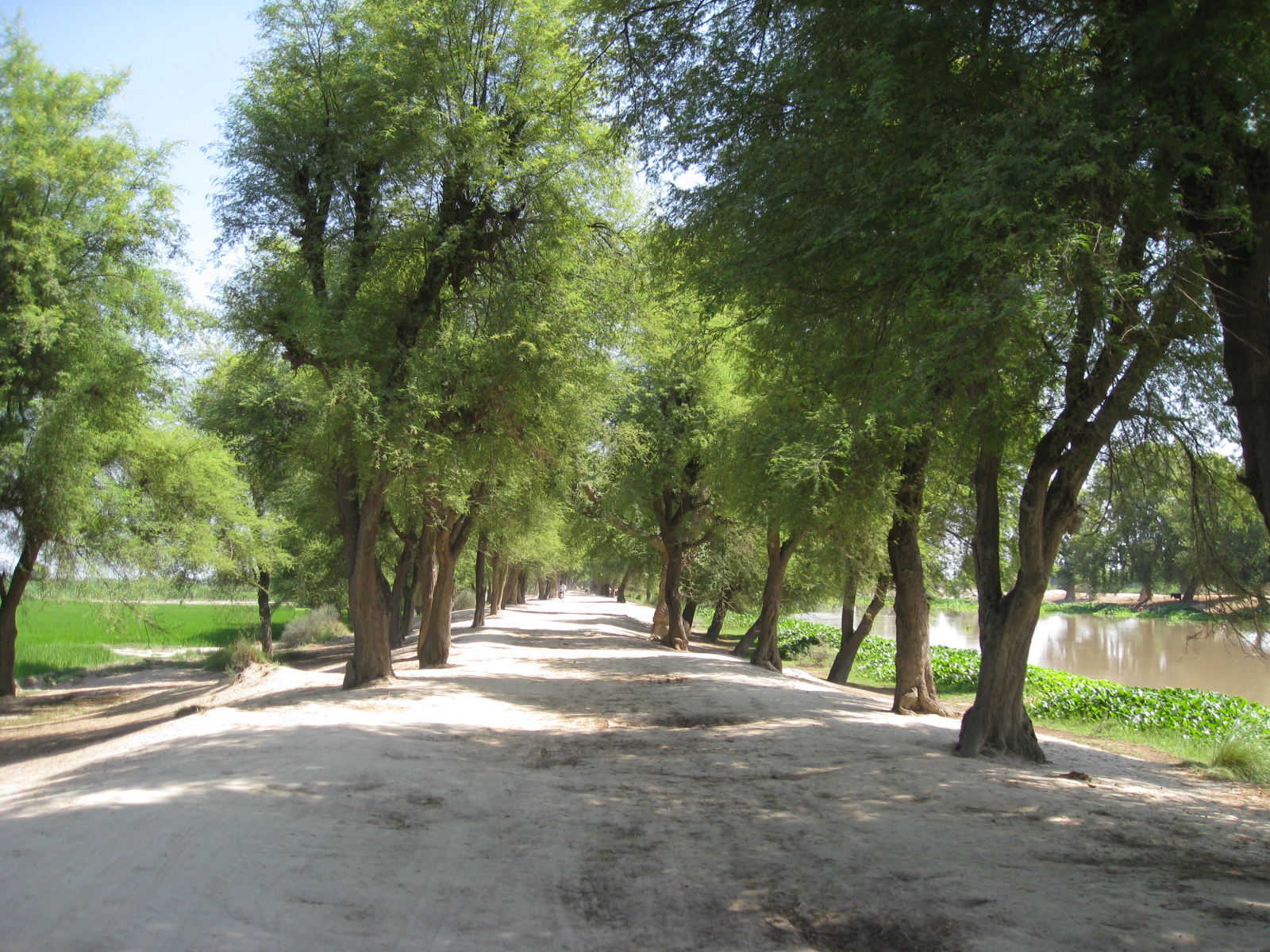 road beside Bahawal Canal